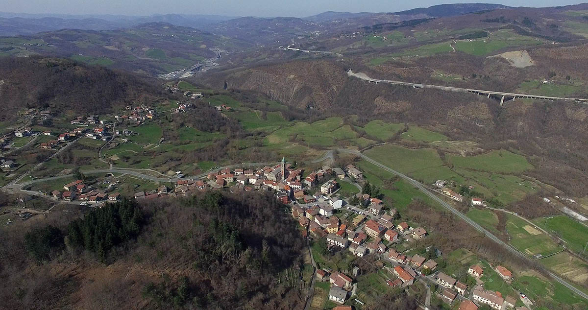 Baragazza